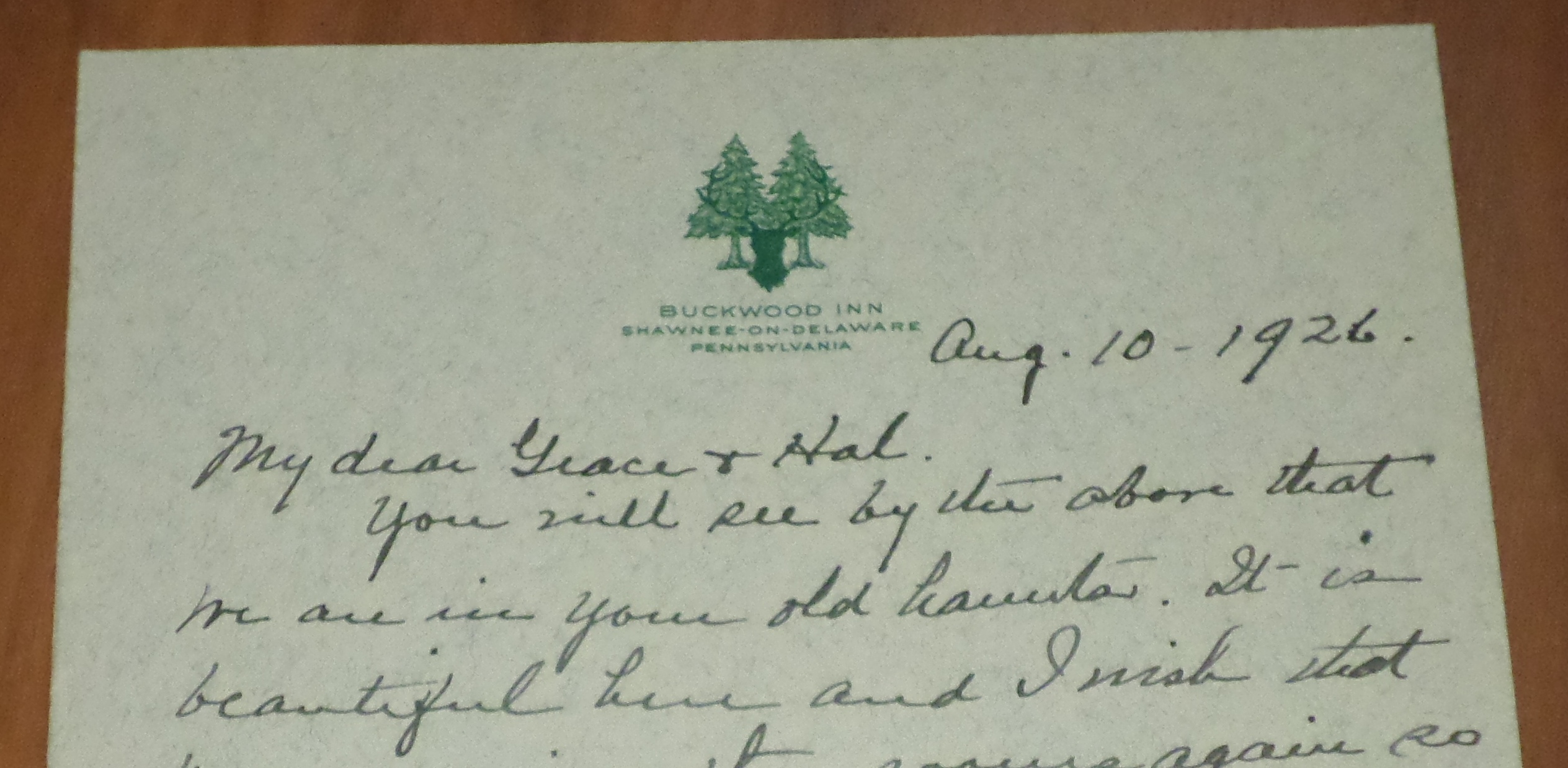 1926 letter from Mina Edison, Thomas Edison's wife, on Buckwood Inn stationery